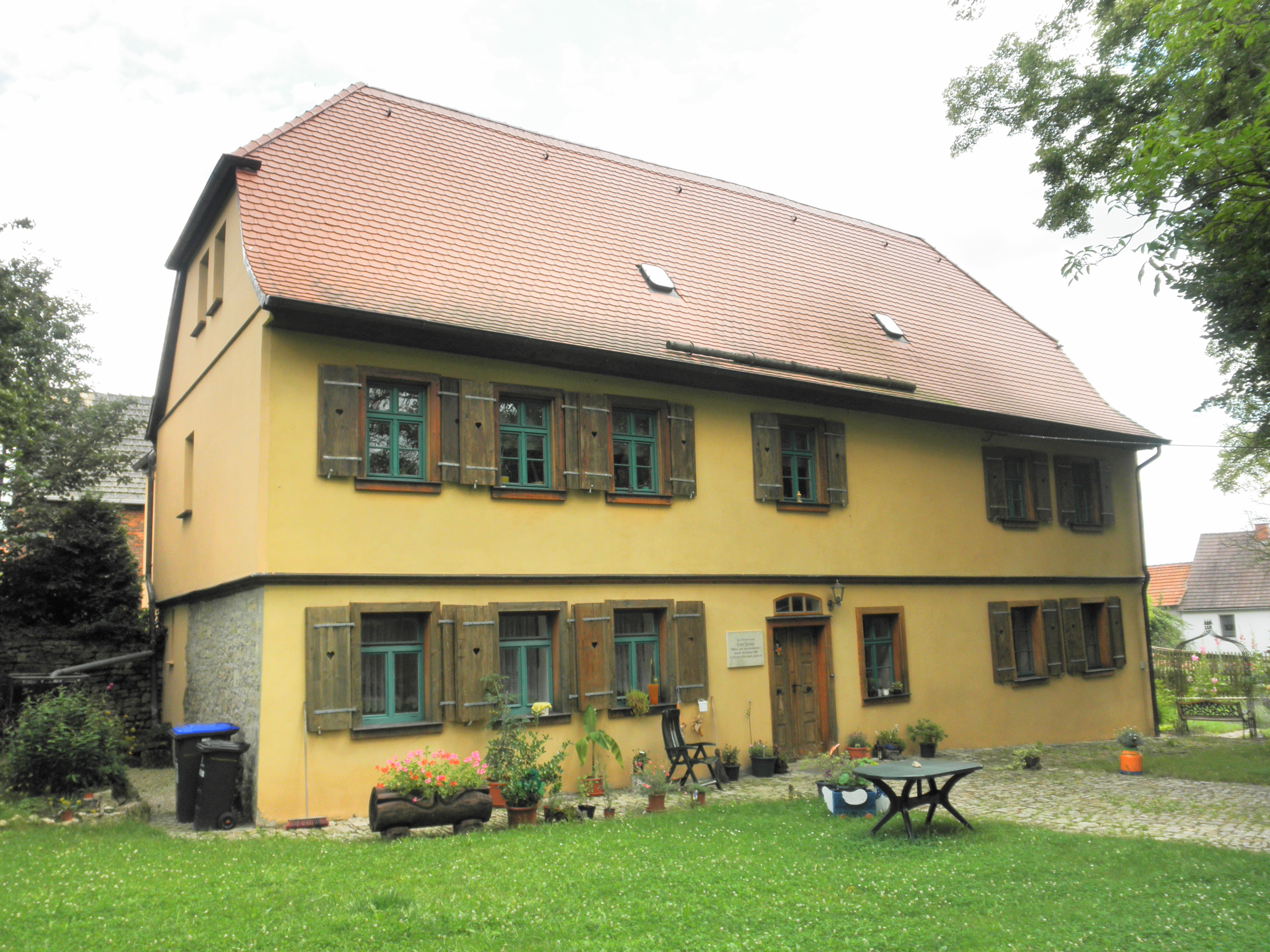 Parsonage in Münchengosserstädt (Saaleplatte) in Thuringia